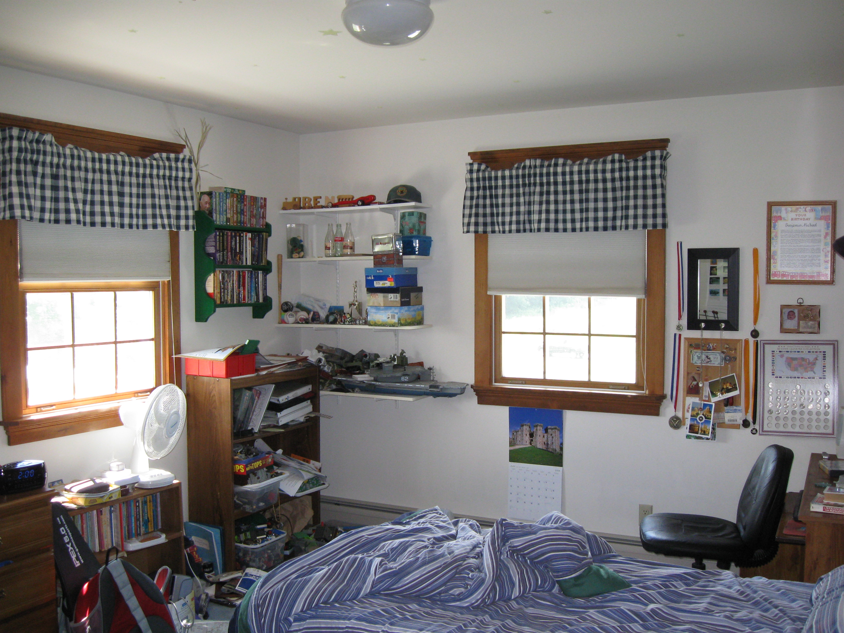 My room